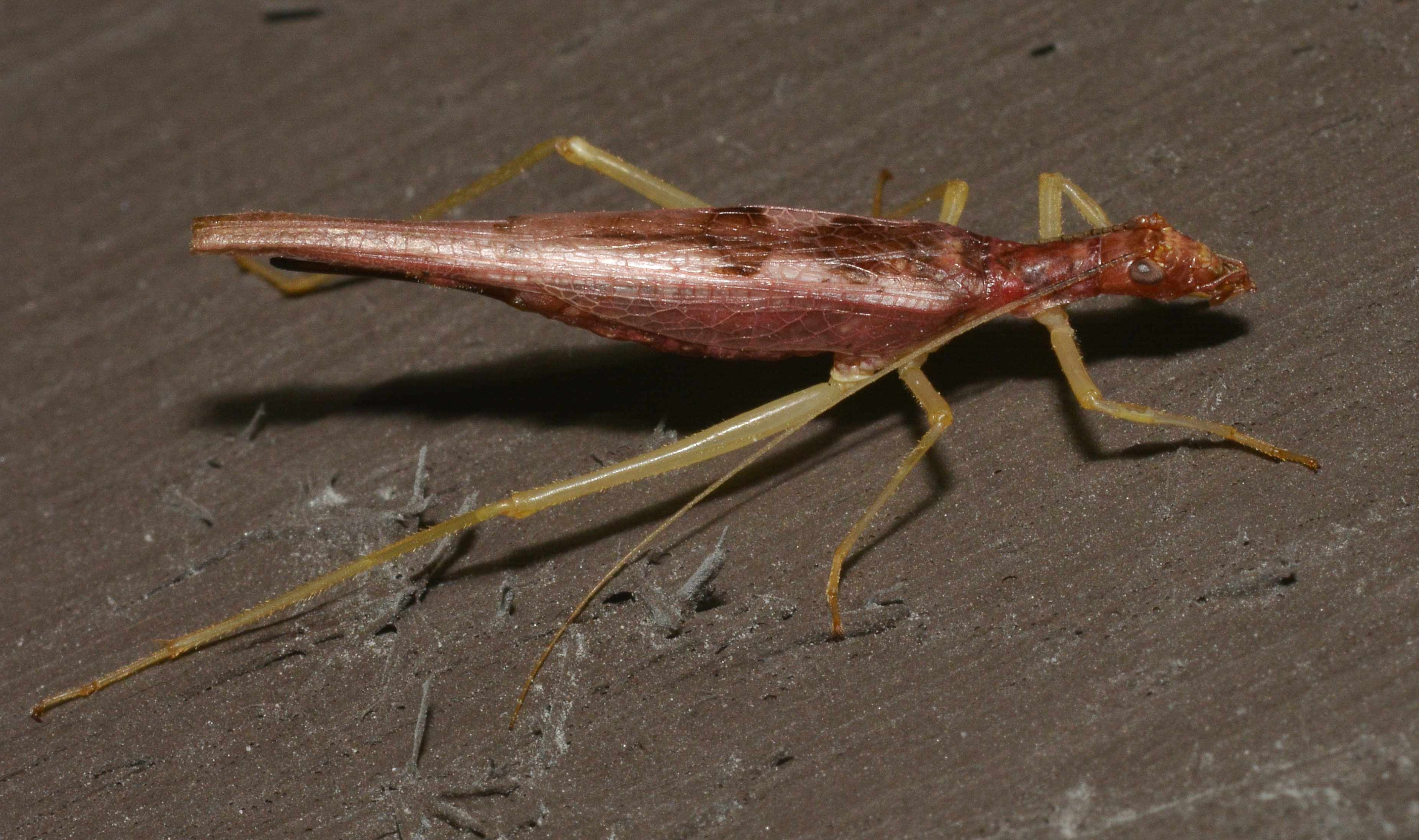 Cuivre River State Park